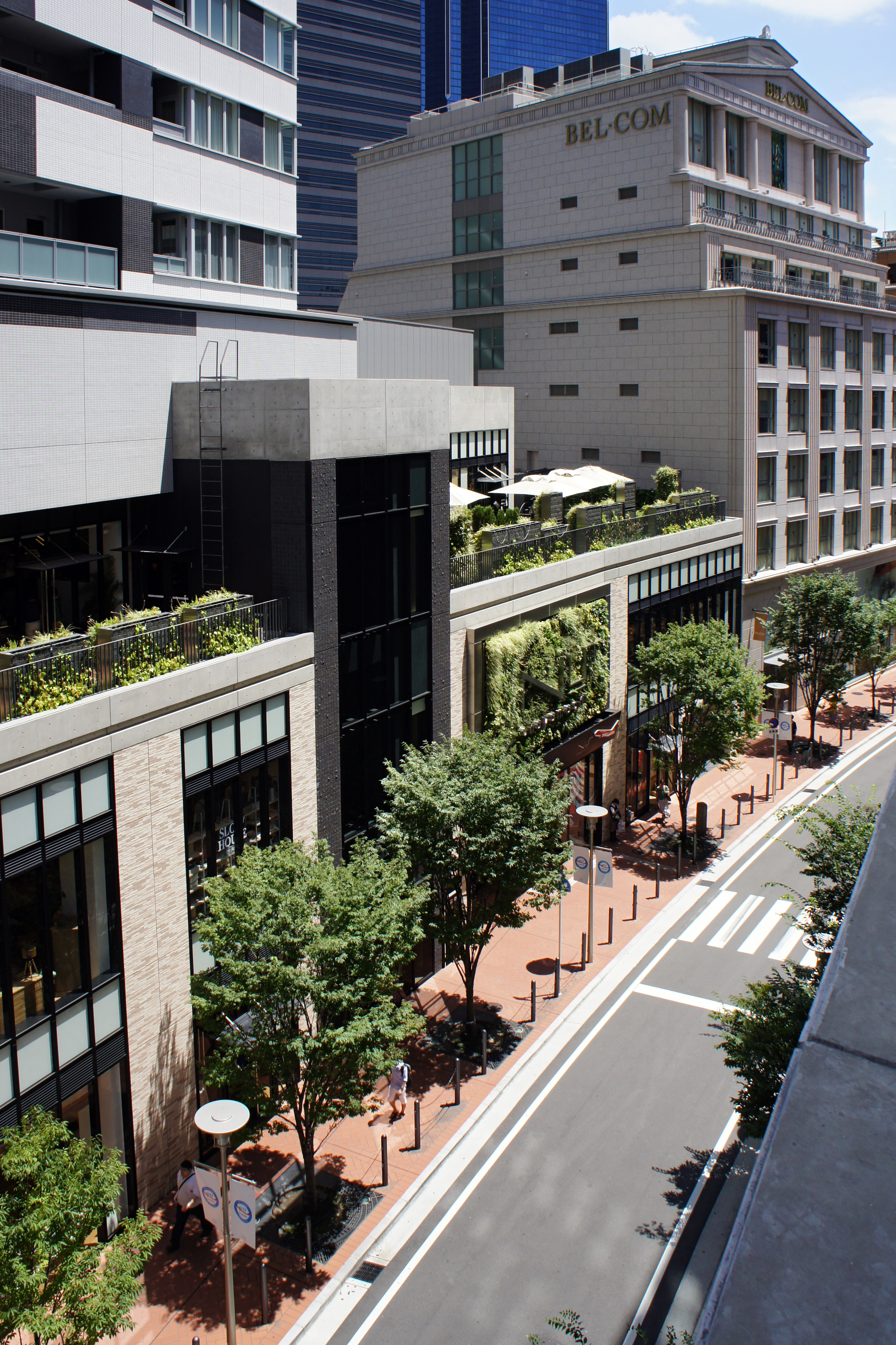 at Chayamachi, Kita-ku, Osaka, Osaka prefecture, Japan